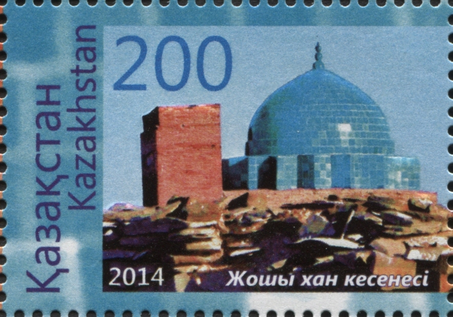 Stamps of Kazakhstan, 2014